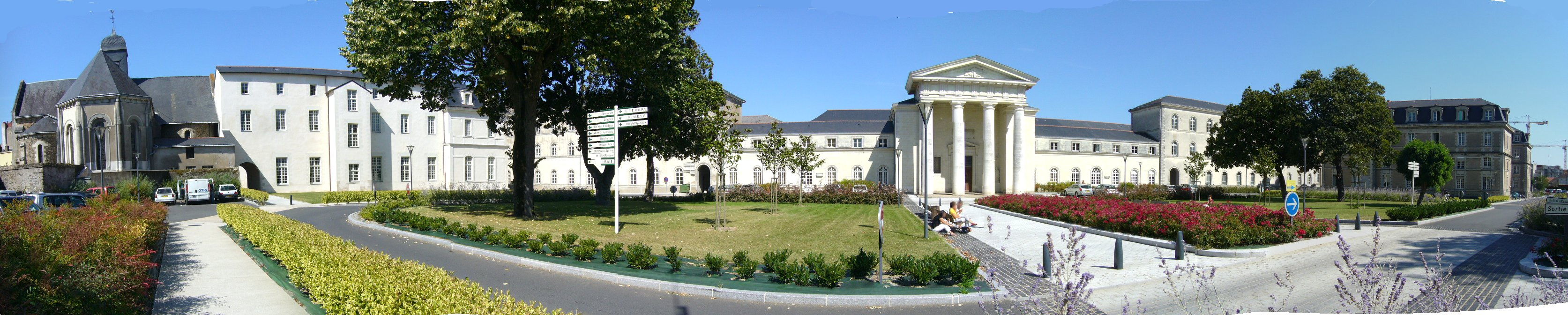 St-Jacques Hospital, Nantes , France Hospital St-Jacques , Nantes , France